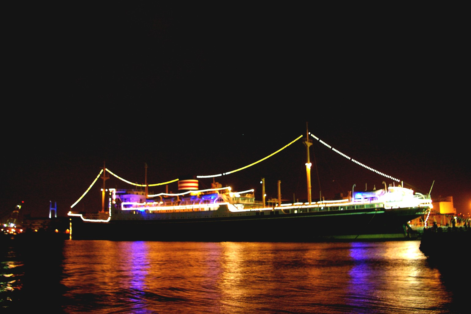 Hikawa Maru. Photography from within Yokohama Harbor